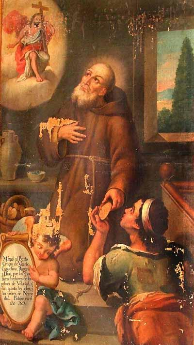 Saint Crispin of Viterbo (Pietro Fioretti, 1668-1750). Mural painting, made around 1808.